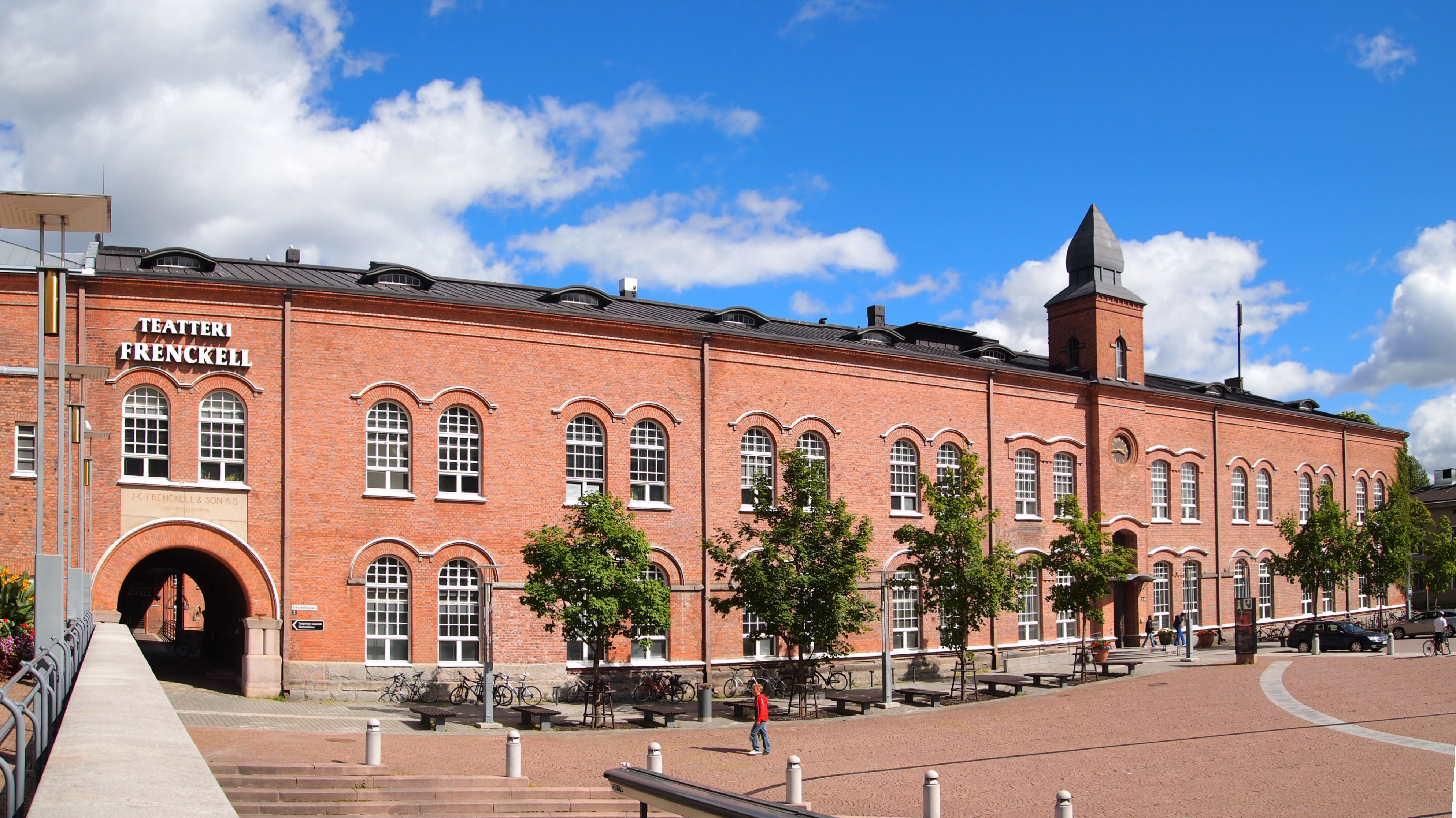 Theater Frenckell in Tampere. This photograph was taken with an Olympus E-PL1